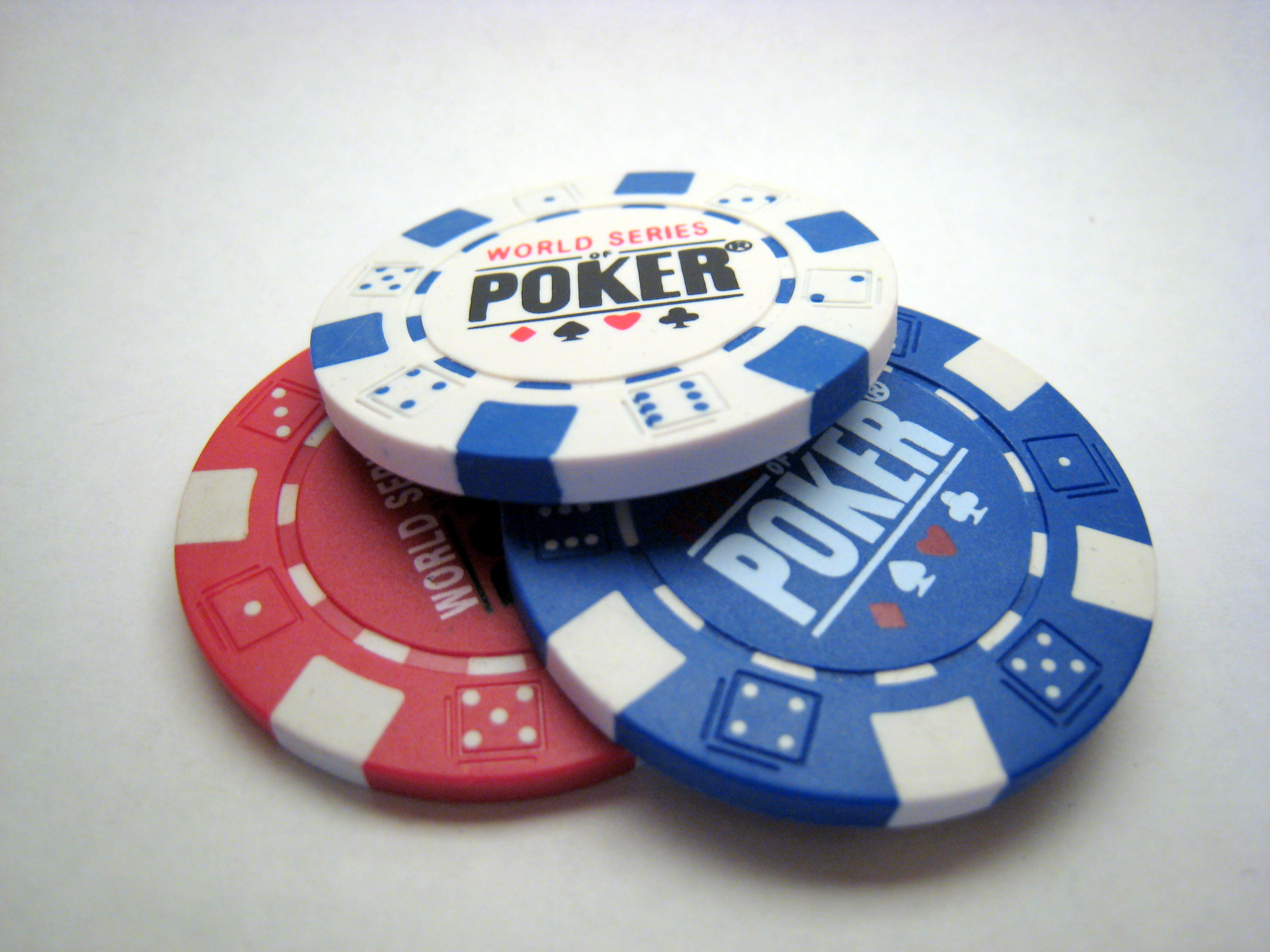 Poker chips